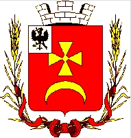 Coat of arms of Borzna, Ukraine (1865)